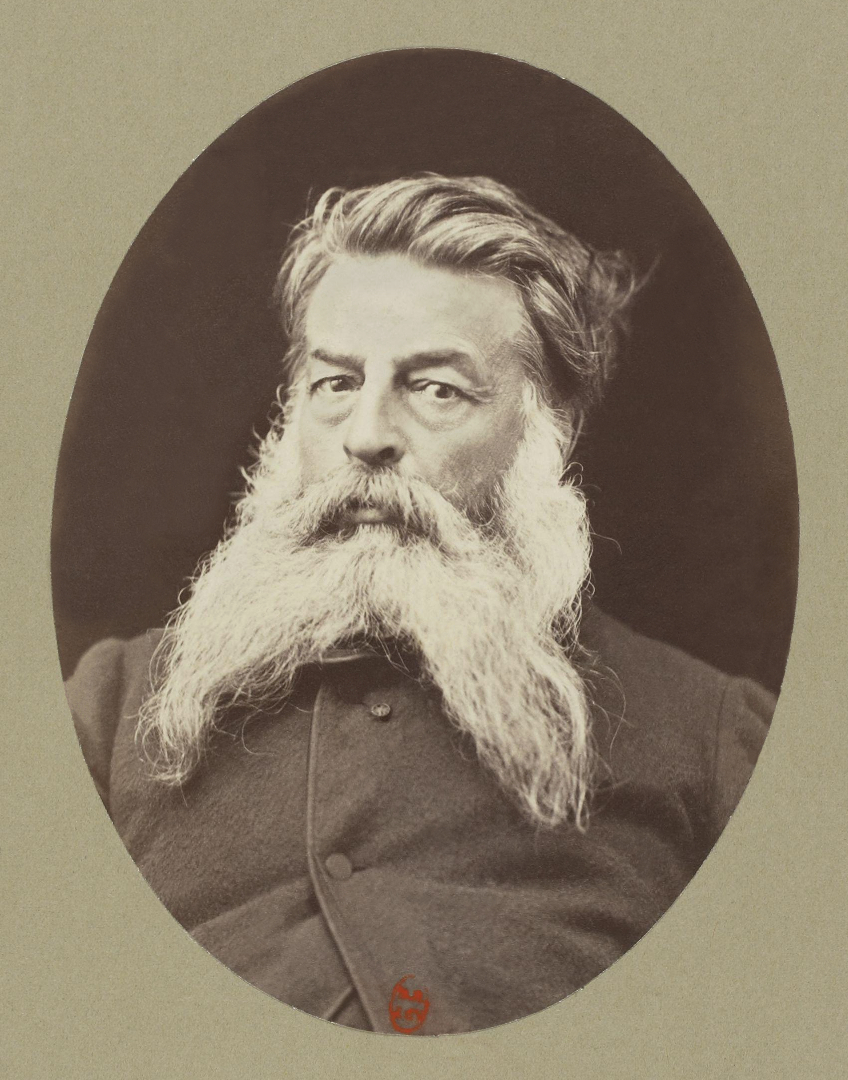 Jean-Louis Ernest Meissonier (1815-1891), French sculptor and military painter, by Robert Jefferson Bingham (1824-1870). Picture published ca 1865-70. Glass collodion negative, positive albumen print, uncropped and restored.